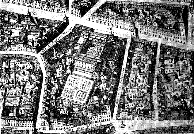 Trinidad Calzada convent of Madrid in the map of Teixeira.